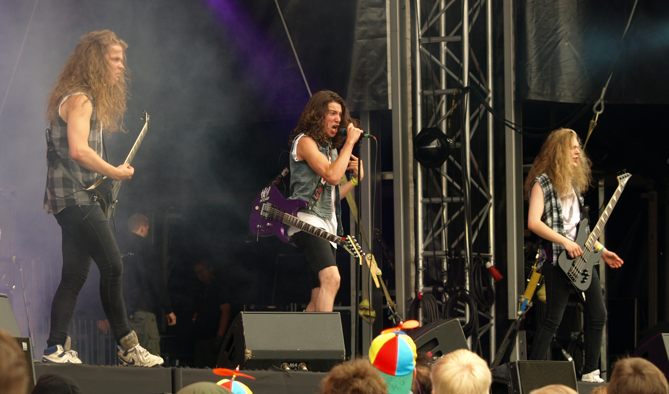 Finnish thrash metal band Lost Society at Tuska Open Air 2013